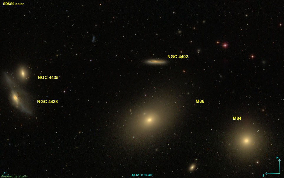 Image created using the Aladin Sky Atlas software from the Strasbourg Astronomical Data Center and SDSS (Sloan Digital Sky Survey) public data.